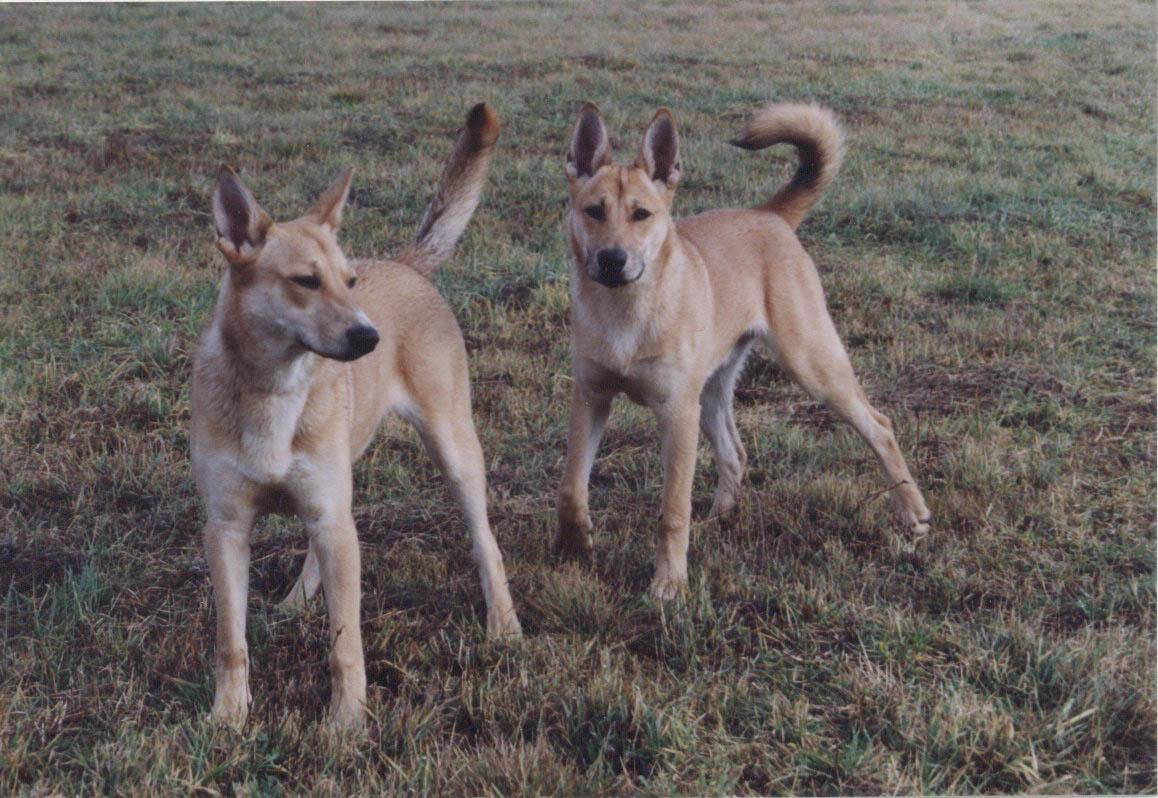 Zwei Carolina Dogs